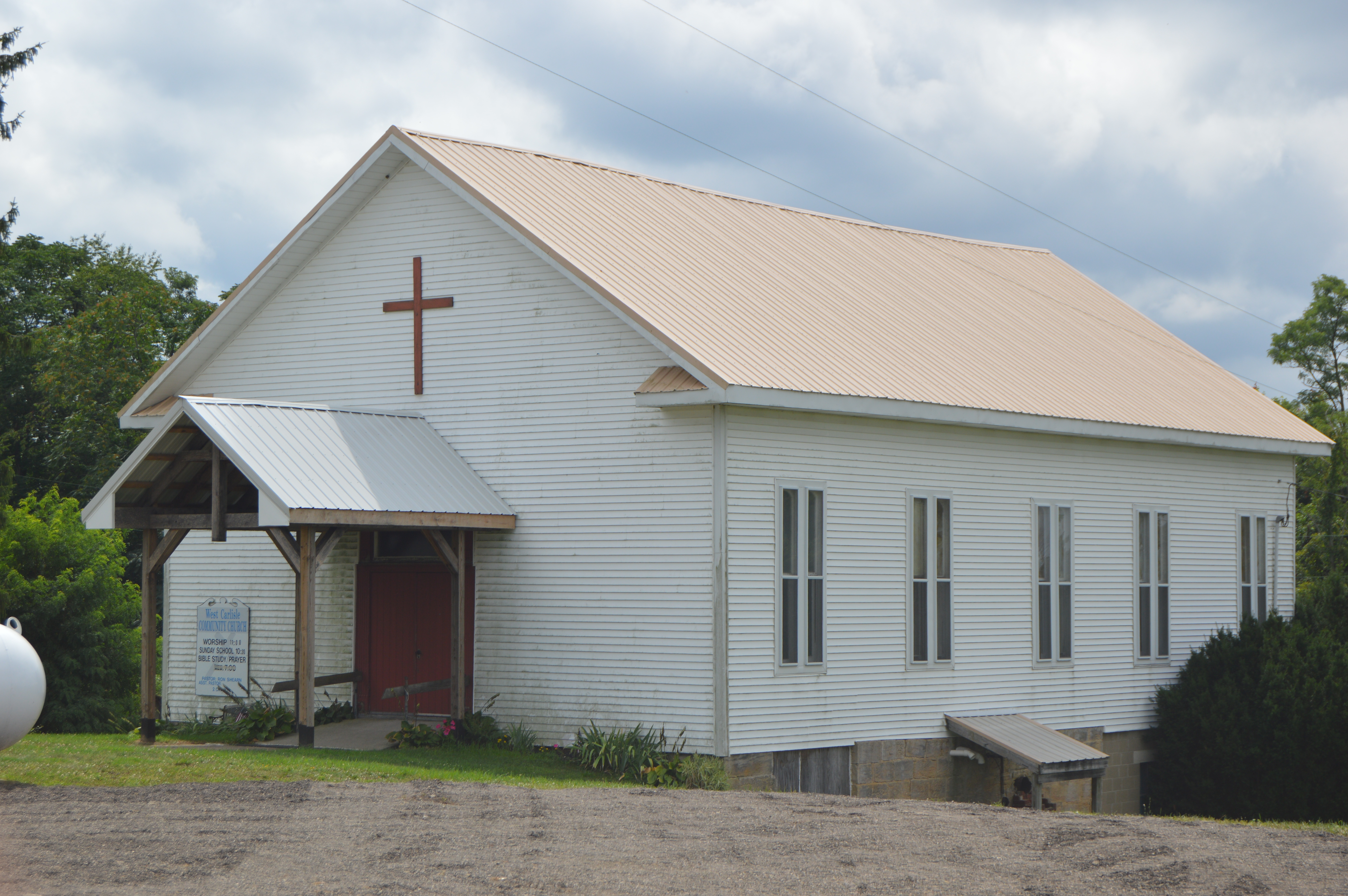 Front and western side of the West Carlisle Community Church, located on the southern side of Road 3 immediately east of the intersection with Road 80 at West Carlisle in Pike Township, Coshocton County, Ohio, United States. It was built in 1920.